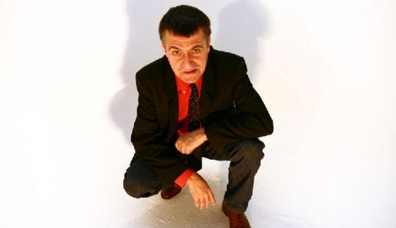 Spanish comedian and TV presenter El Gran Wyoming.